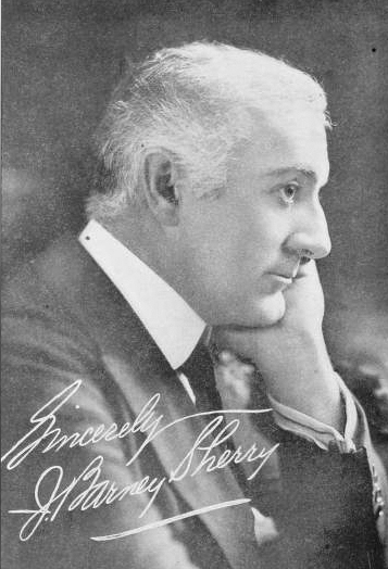 Photograph of silent film actor J. Barney Sherry